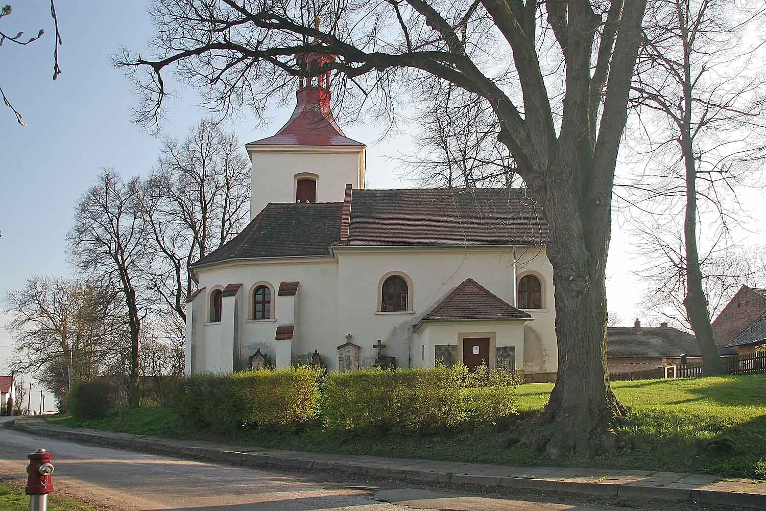 Church of Saint Andrew in village of Světí, Hradec Králové District, Czech Republic Autor: Prazak Date: 24. 4. 2006